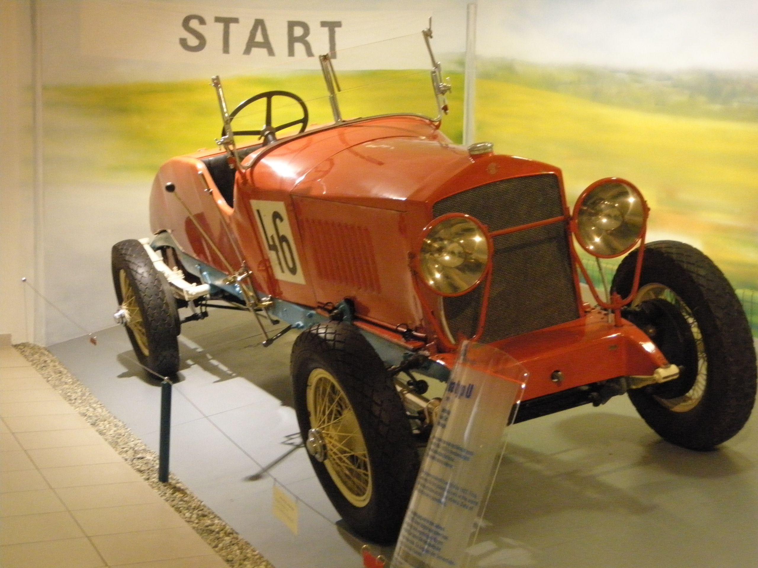 Tatra 10 racecar (NW type U)